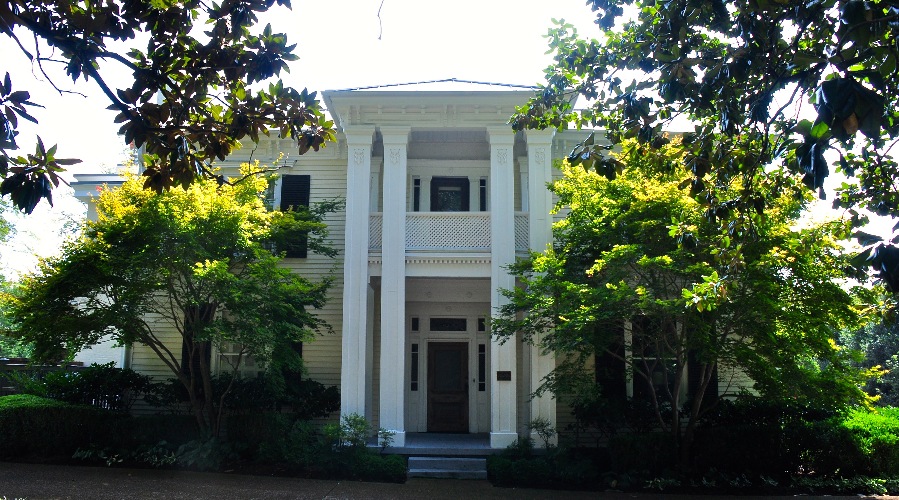 Alpheus Truett House, U.S. Route 31/Franklin Rd., 0.3 miles (0.48 km) north of Franklin Sq. Franklin